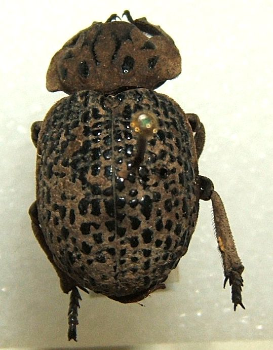 Omorgus scutellaris adult taken by Shawn Hanrahan at the Texas A&M University Insect Collection in College Station, Texas. Cropped version of Omorgus_scutellaris_sjh.jpg.